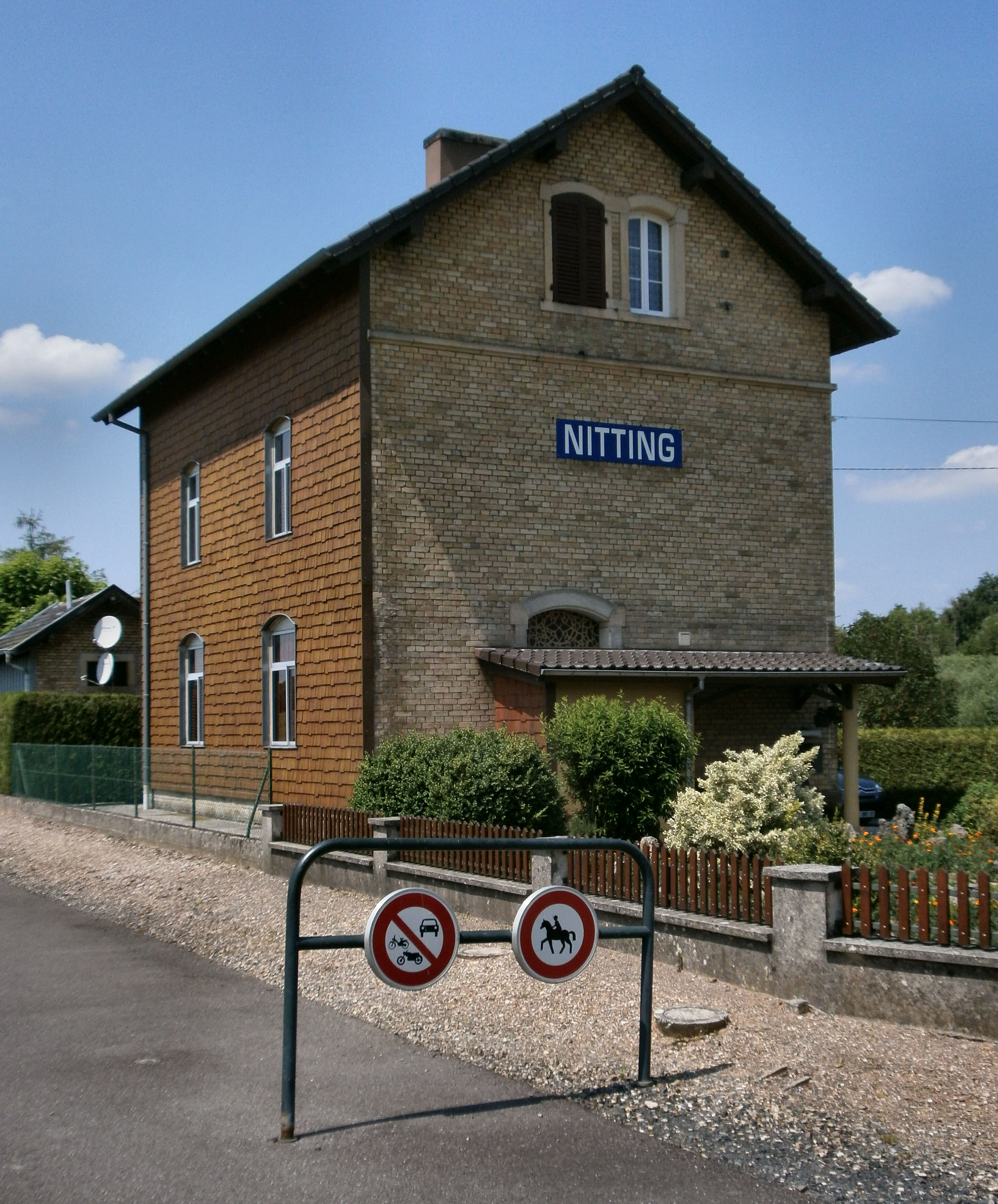 Abandoned train station Nitting near Abreschviller